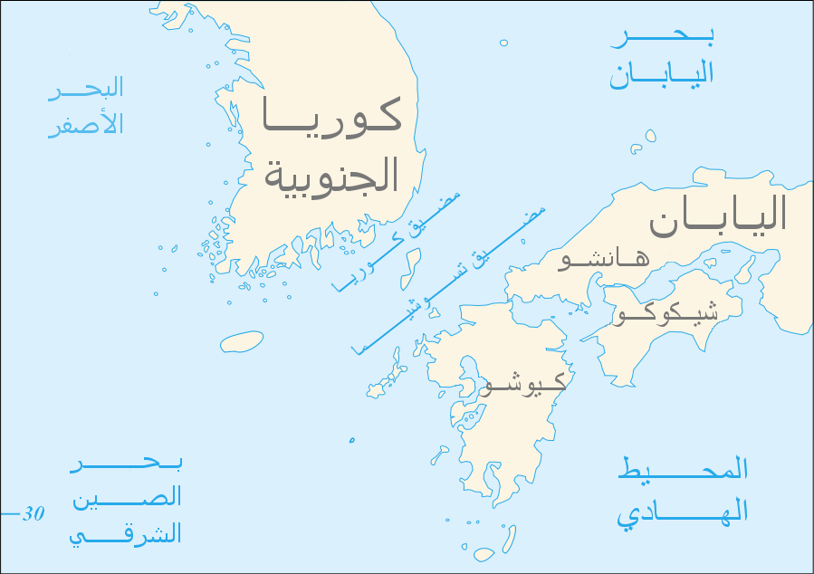 arabic description of the korean strait and tsushima strait